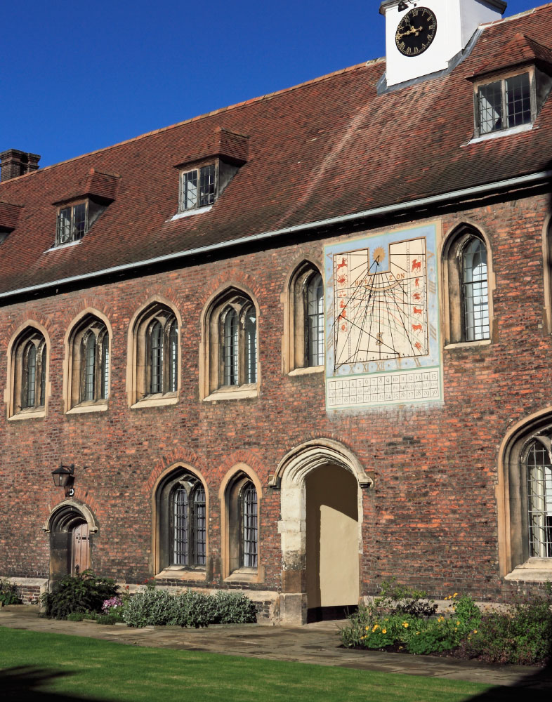 Part of Queens' College, Cambridge, showing the sundial